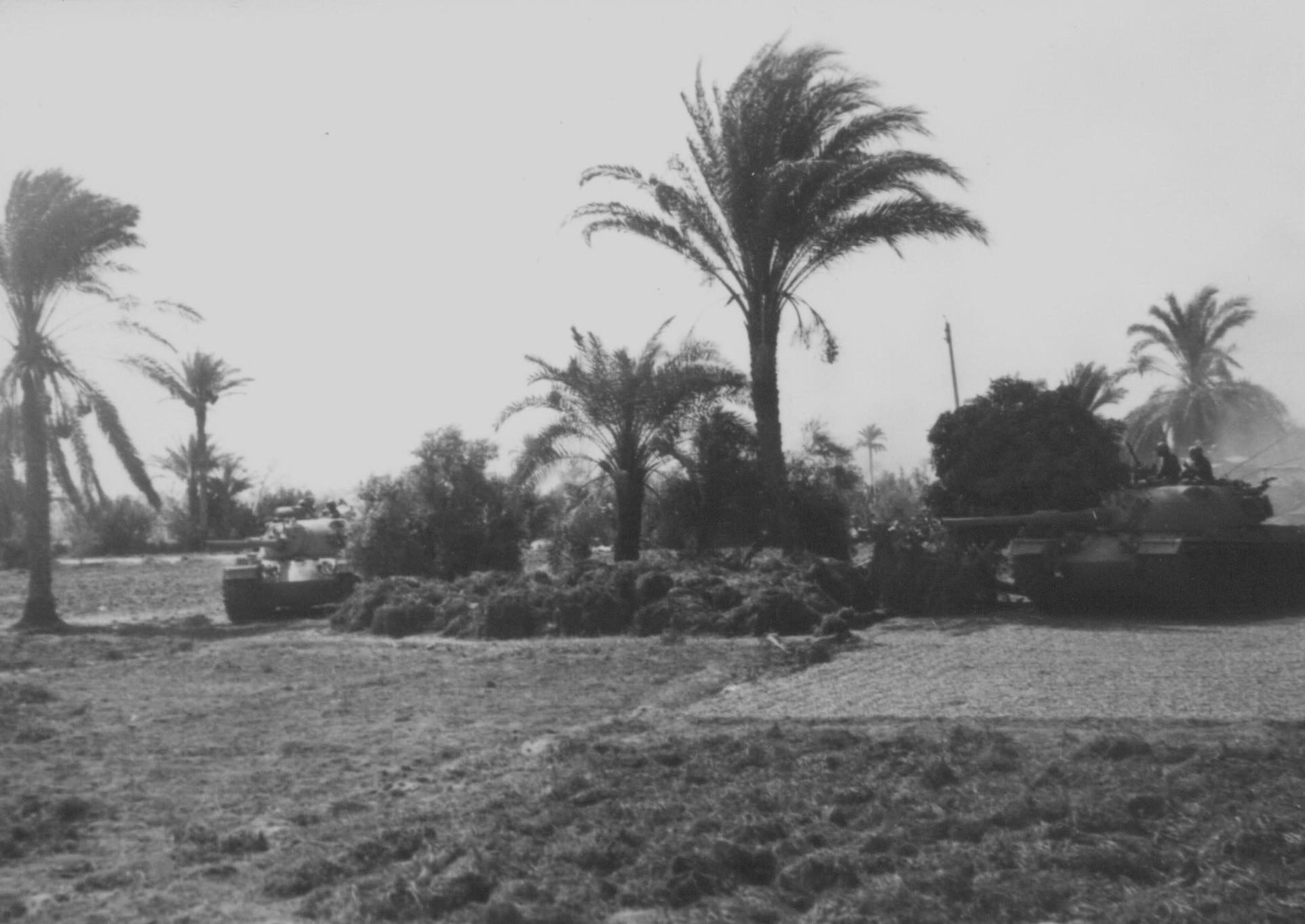 IDF Tanks from Sharon's division, prepare for invading Ismailia during the Ramadan War.